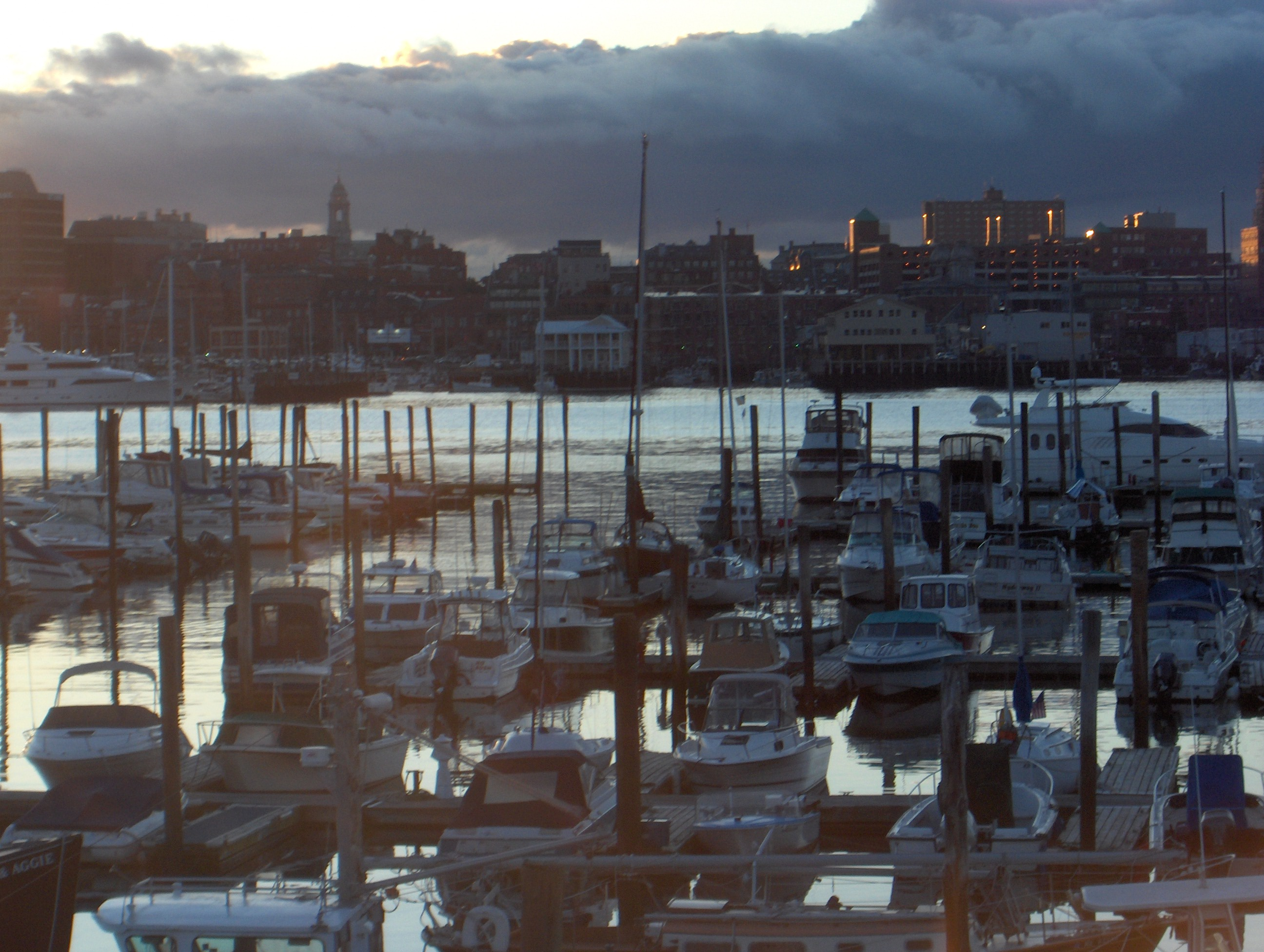 Pretty view of Portland from the Saltwater Grille.